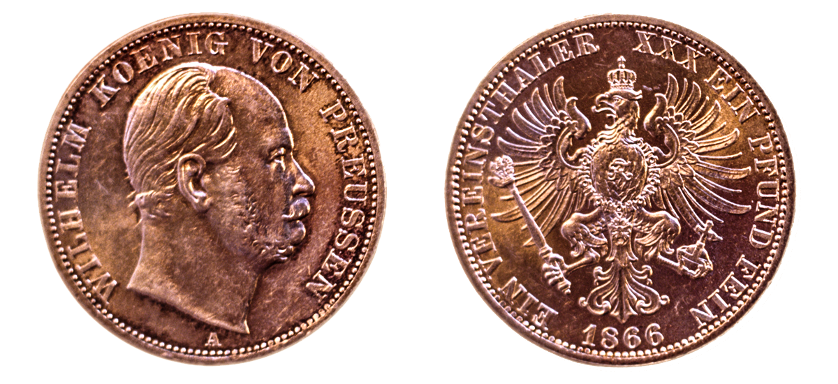 Vereinsthaler Prussia Wilhelm I